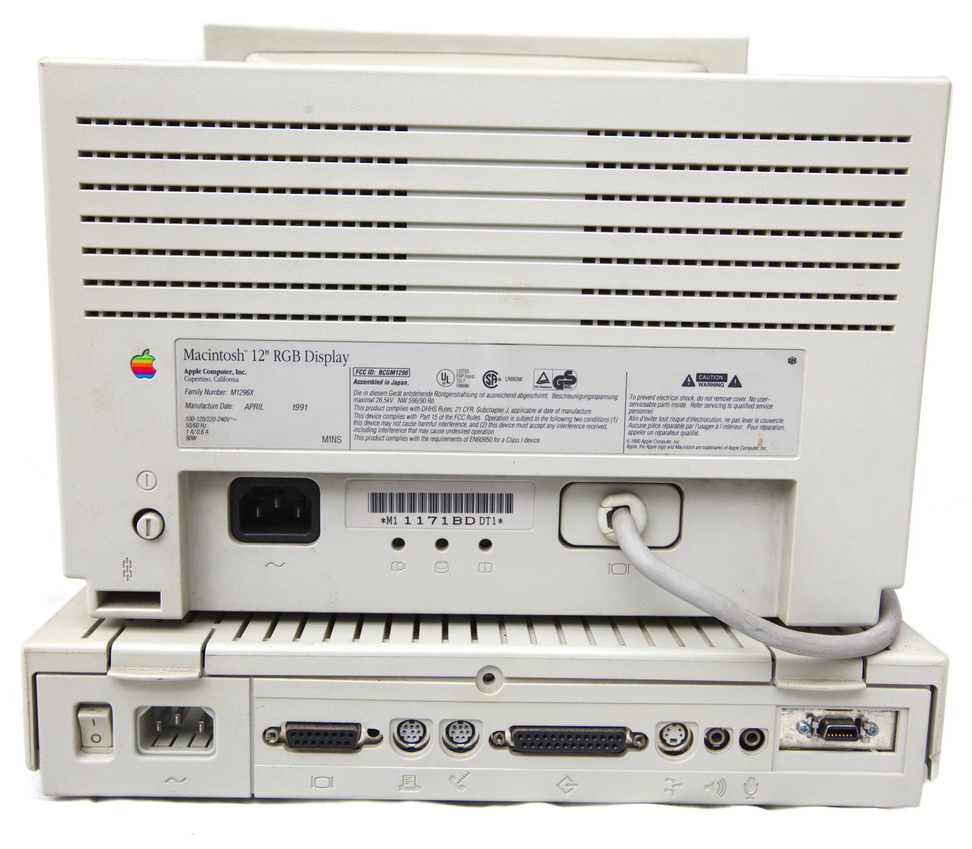 Rear view of an Apple Macintosh LC II computer with Macintosh 12" RGB display.